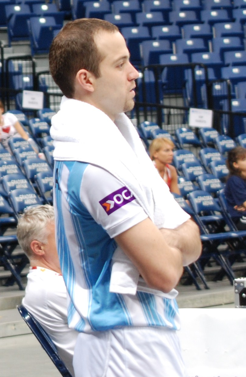 Argentine volleyball player Alexis Ruben Gonzalez